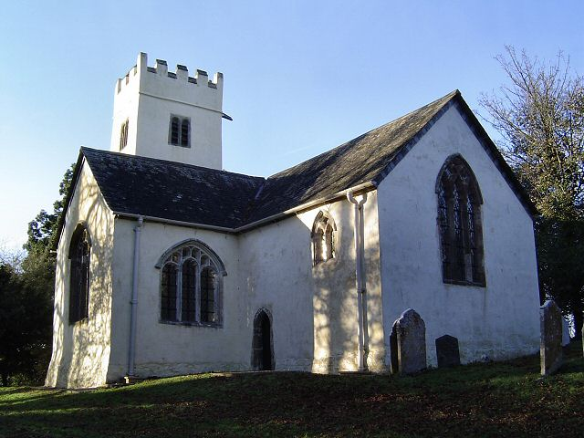 West Ogwell church. This church was built around 1300. In 1981 it was "decommissioned" and is now managed by the Churches Conservation trust. Inside there are well preserved Georgian box pews as well as some other good church furniture.